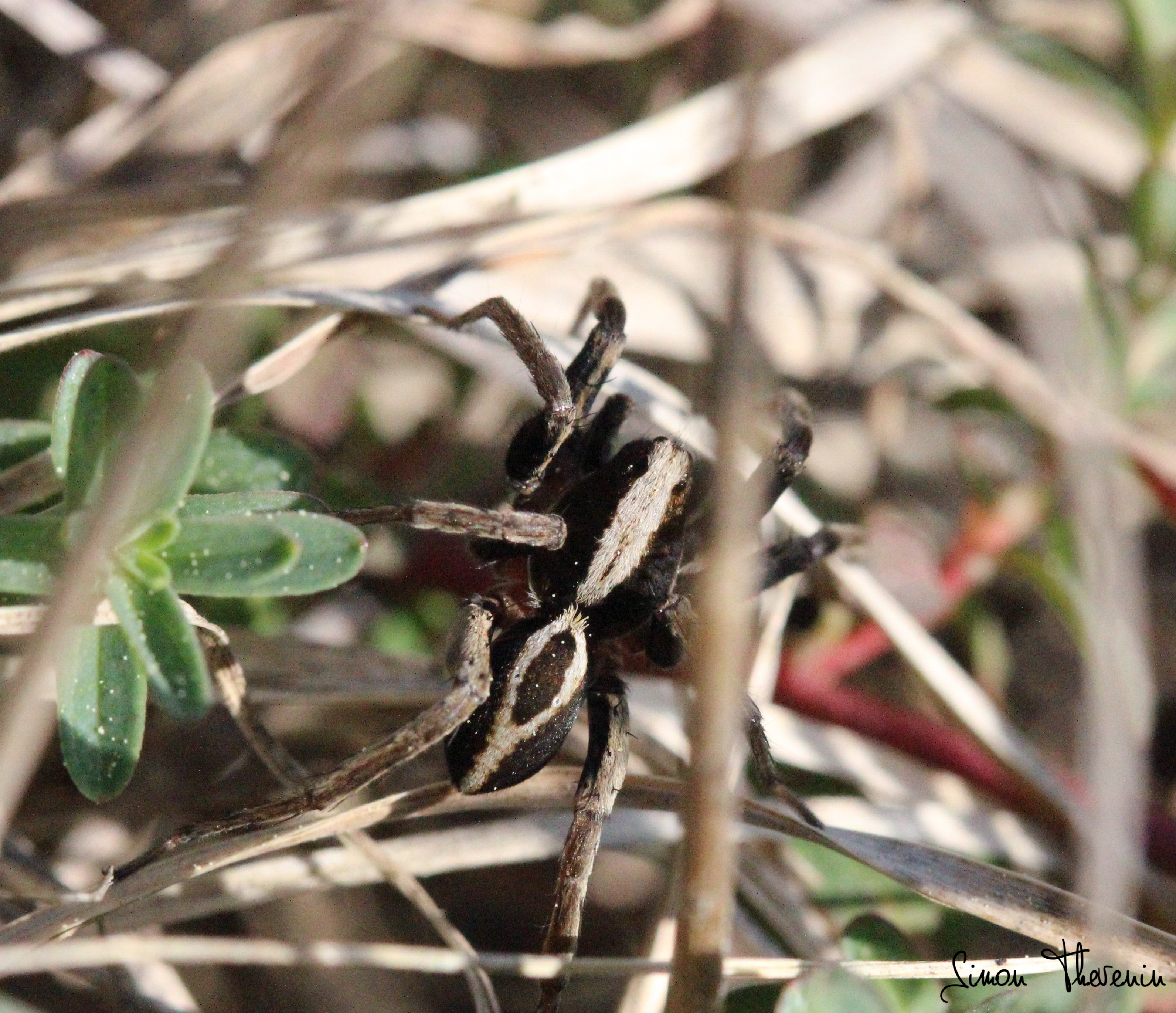 Alopecosa albofasciata (Lyocse à dessin blanc) mâle, macrophotographie de Simon Thevenin à Rognes le 08/04/2020